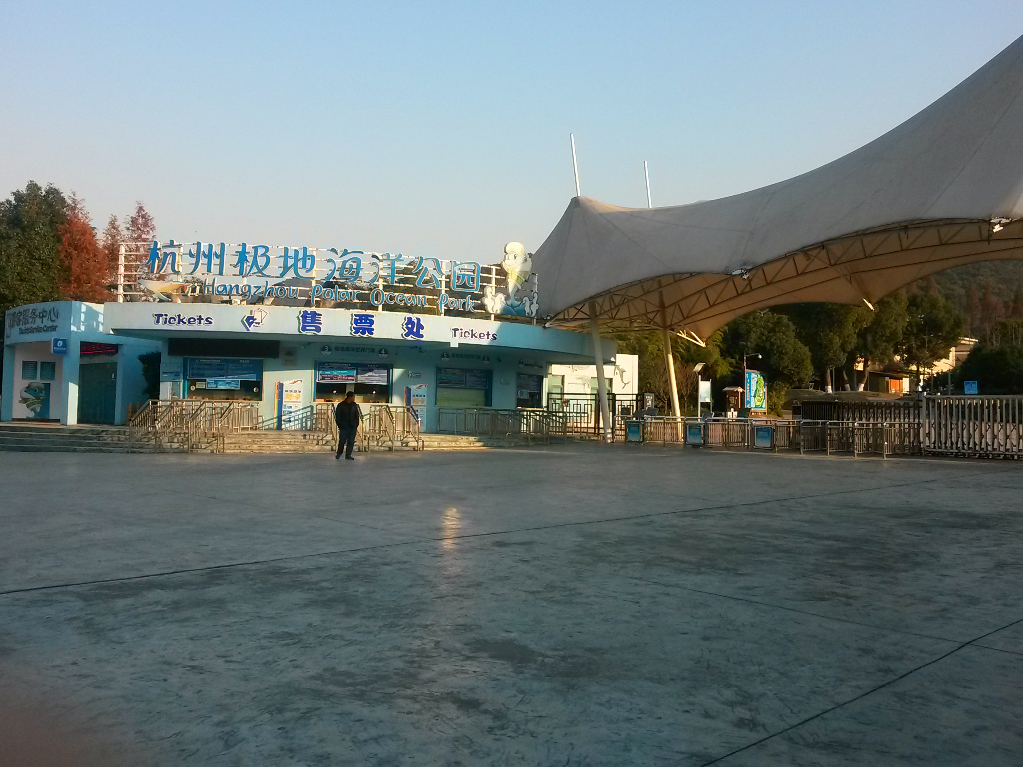 Hangzhou Polar Ocean Park